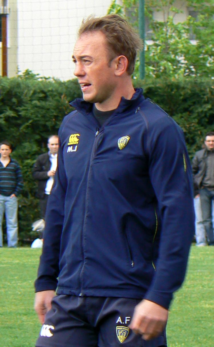 The rugbyman Marius Joubert with ASM Clermont Auvergne